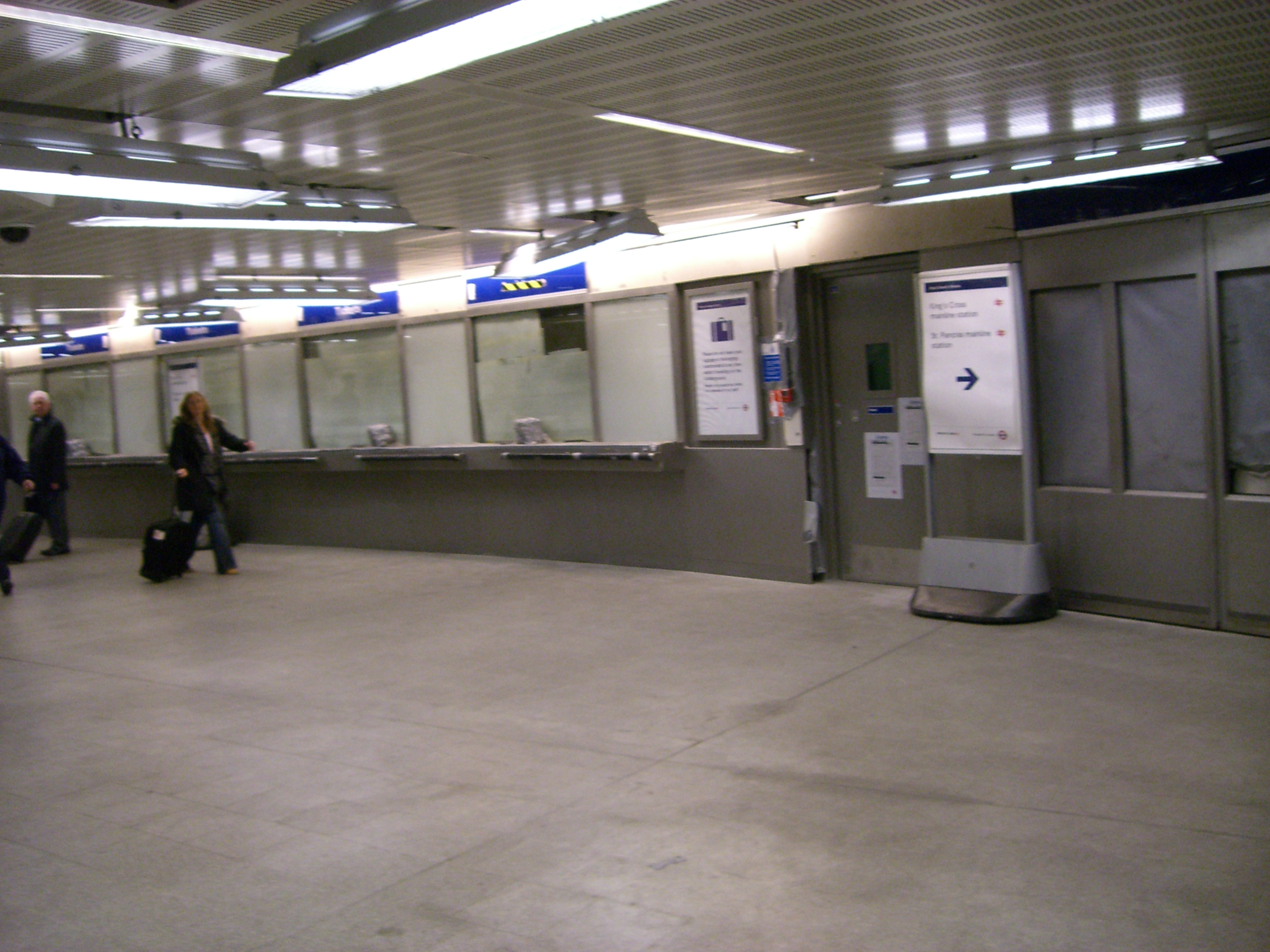 New ticket office at King's Cross St. Pancras tube station, not open yet. Photo taken by User:Edward on 26 March 2006 with a Casio EX-S600.